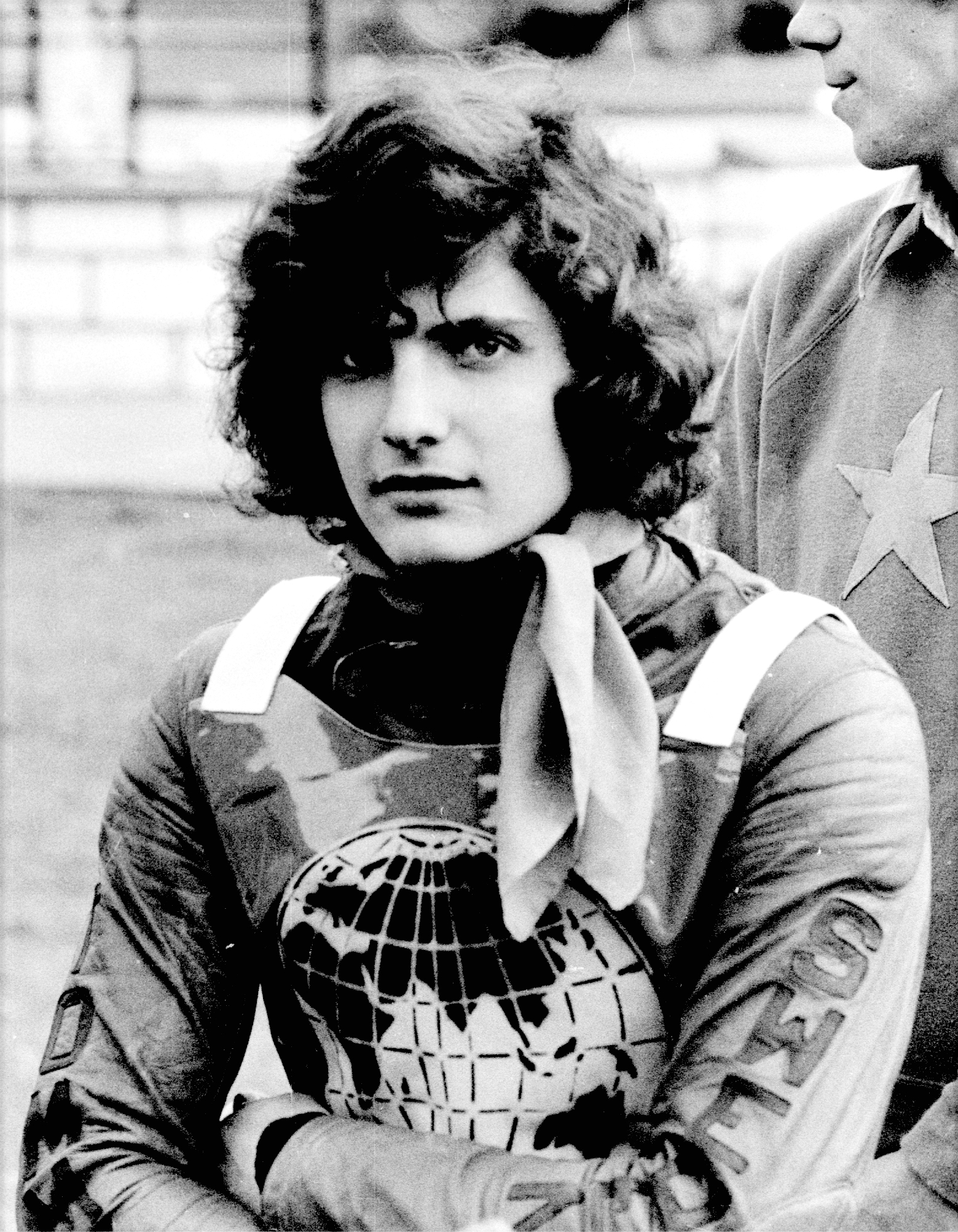 At the Intercontinental Final